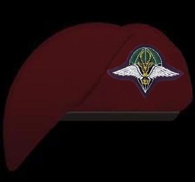 Personal Illustration of 1 Parchute Battalion Beret Description Personal Illustration of 1 Parchute Battalion Beret Date18 November 2010, 05:27 (UTC)SourceI (Smikect) created this work entirely by myself.AuthorSmikect Personal Illustration of 1 Parchute Battalion Beret